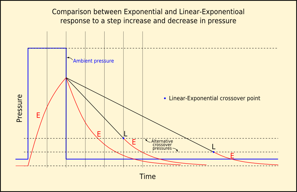 Graph showing the dissolved gas uptake and washout response to a step increase and decrease in pressure for an exponential-exponential and two exponential-linear curves in a tissue of a given time constant.